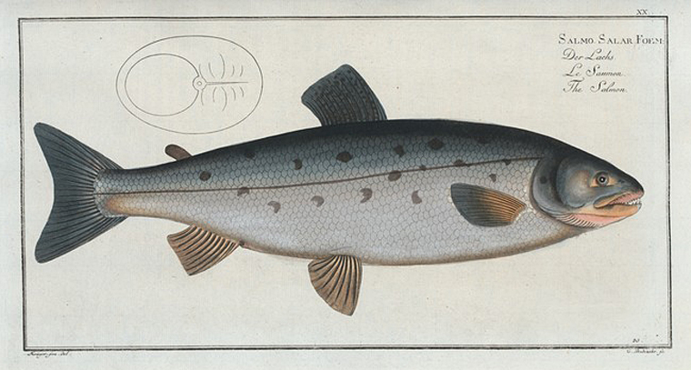 Sample engraving of an Atlantic salmon (Salmo salar, Linnaeus, 1758) from Oeconomische Naturgeschichte der Fische Deutschlands, published 1782–1785